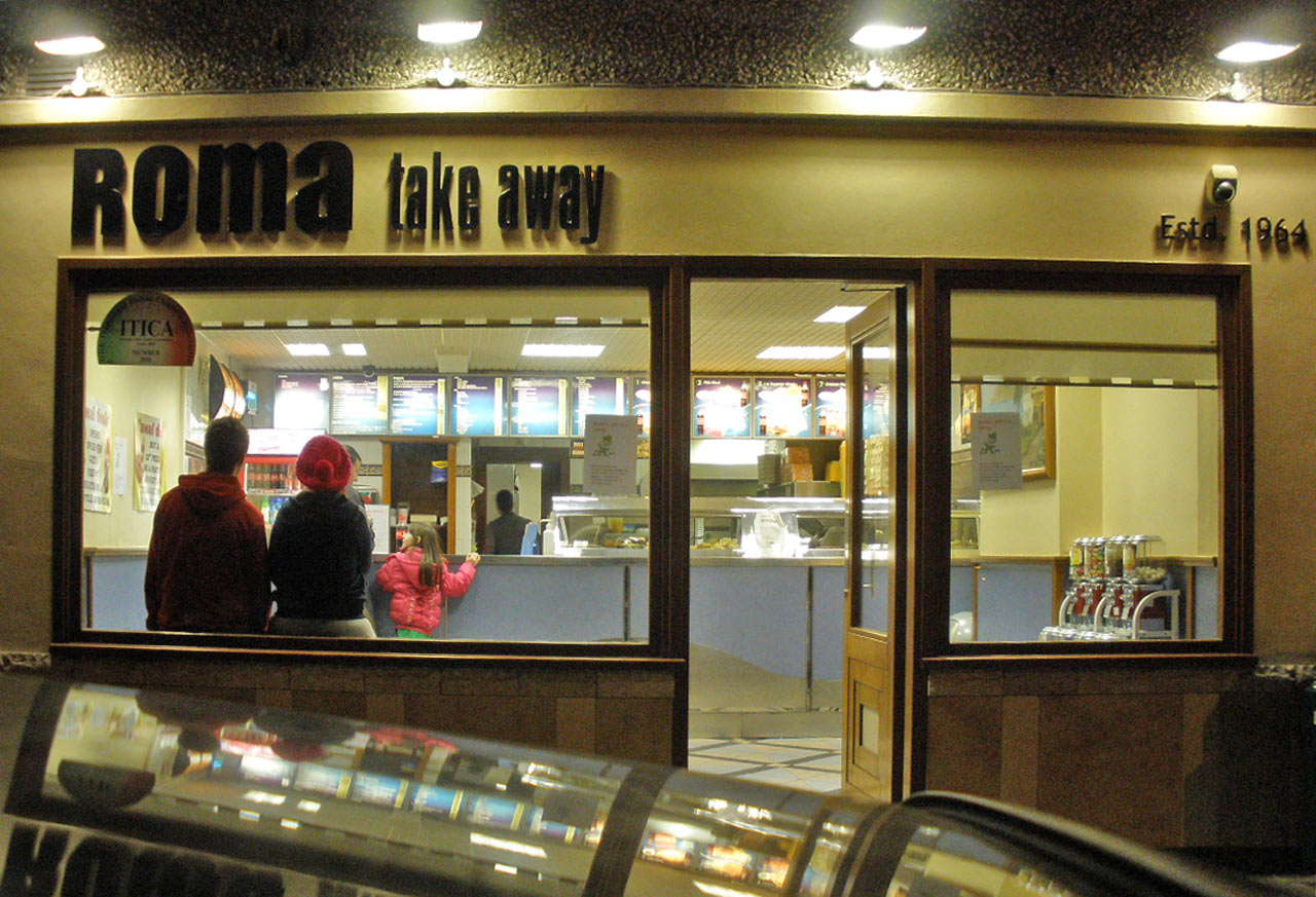 Fish and chip shop on Marian Road in Ballyroan, Dublin.